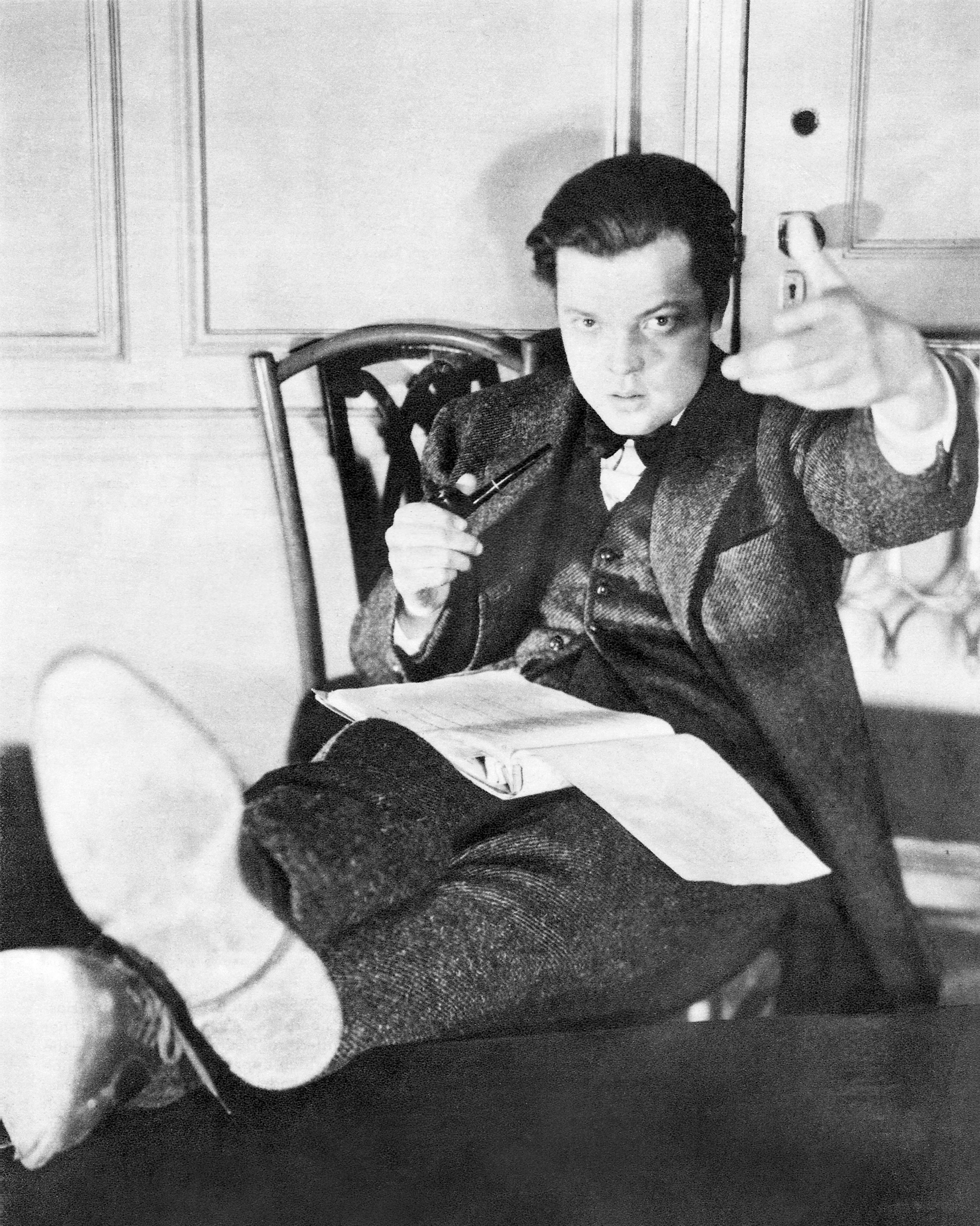 Photograph of Orson Welles appearing in the "America's Most Interesting People" section of The American Magazine Text on page 88 reads as follows:playboyBroadway's youngest impresario, 22-year-old Orson Welles, has made a sure-fire hit out of Shakespeare. So successful was his production of Julius Caesar this past season that he's now buried in timetables, planning a coast-to-coast tour for the summer with five more Shakespearean plays. Simplicity and gusto—that's his slogan for a hit show, and it works. In November he produced and directed Caesar and played the leading role. By the middle of March it had broken all Broadway performance records for that play, and was still going strong.